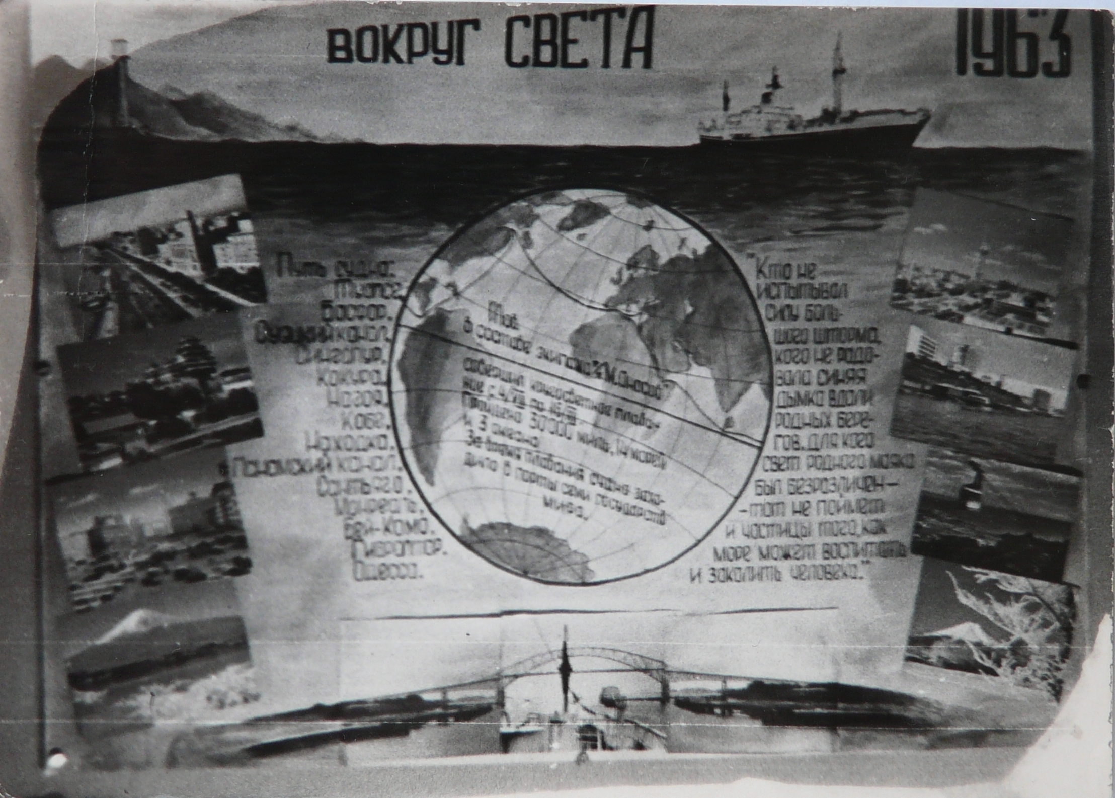 Around the World voyage of dry cargo vessel Metallurg Anosover in 1963 (from 4 of August to 16 of December). This photo received every crew member which was in this voyage.